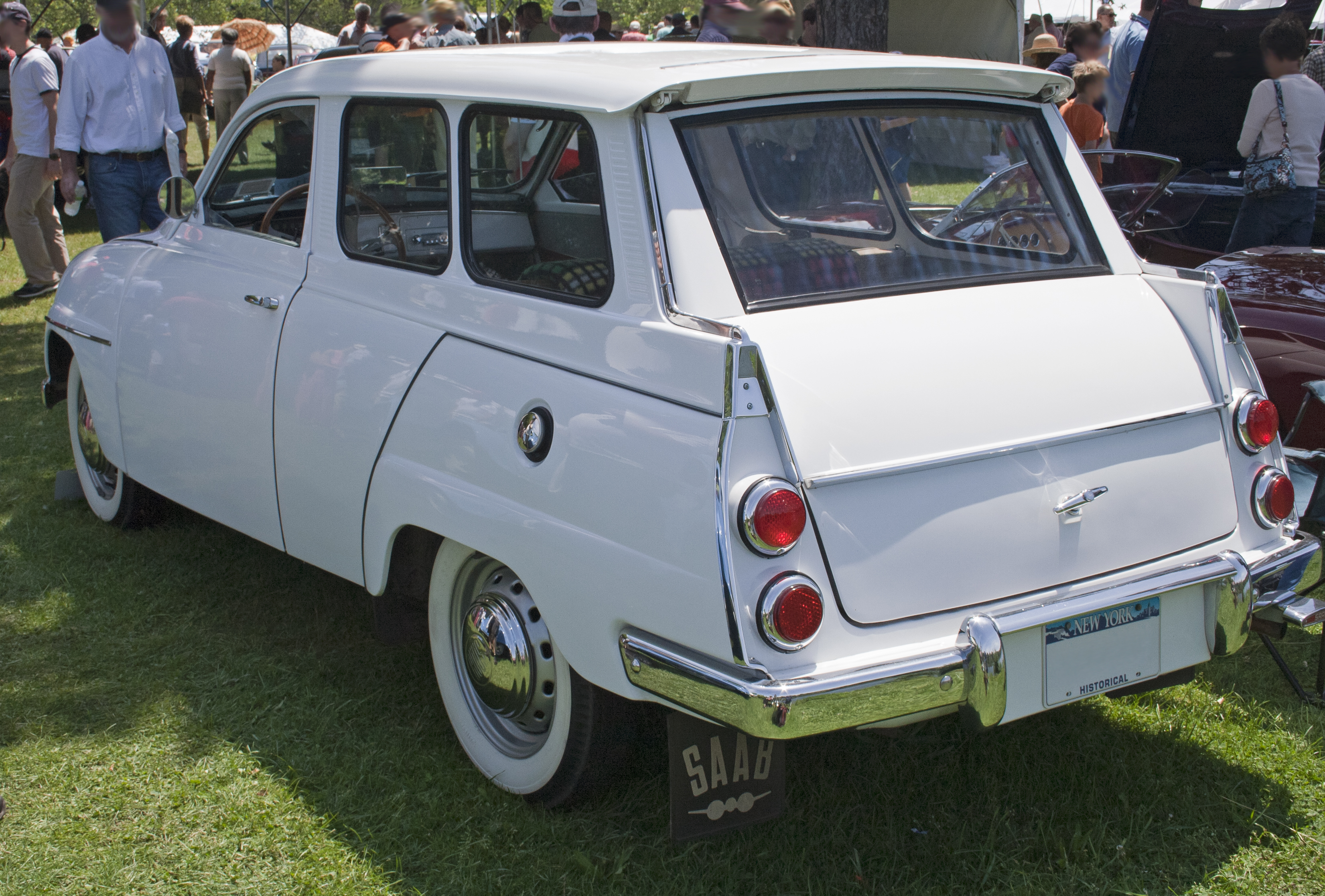 1963 SAAB 95 wagon at the 2012 Greenwich Concours d'Elegance - the only bull-nose 95 in North America.